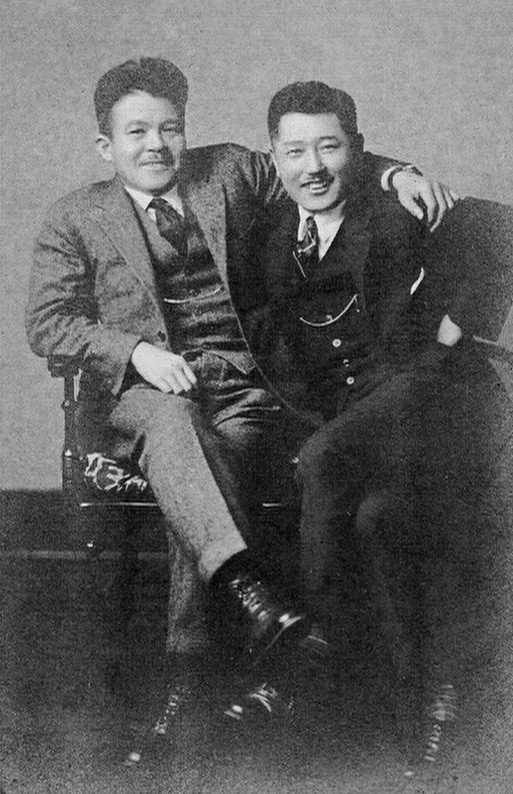 Chuichi Nagumo and friend image.